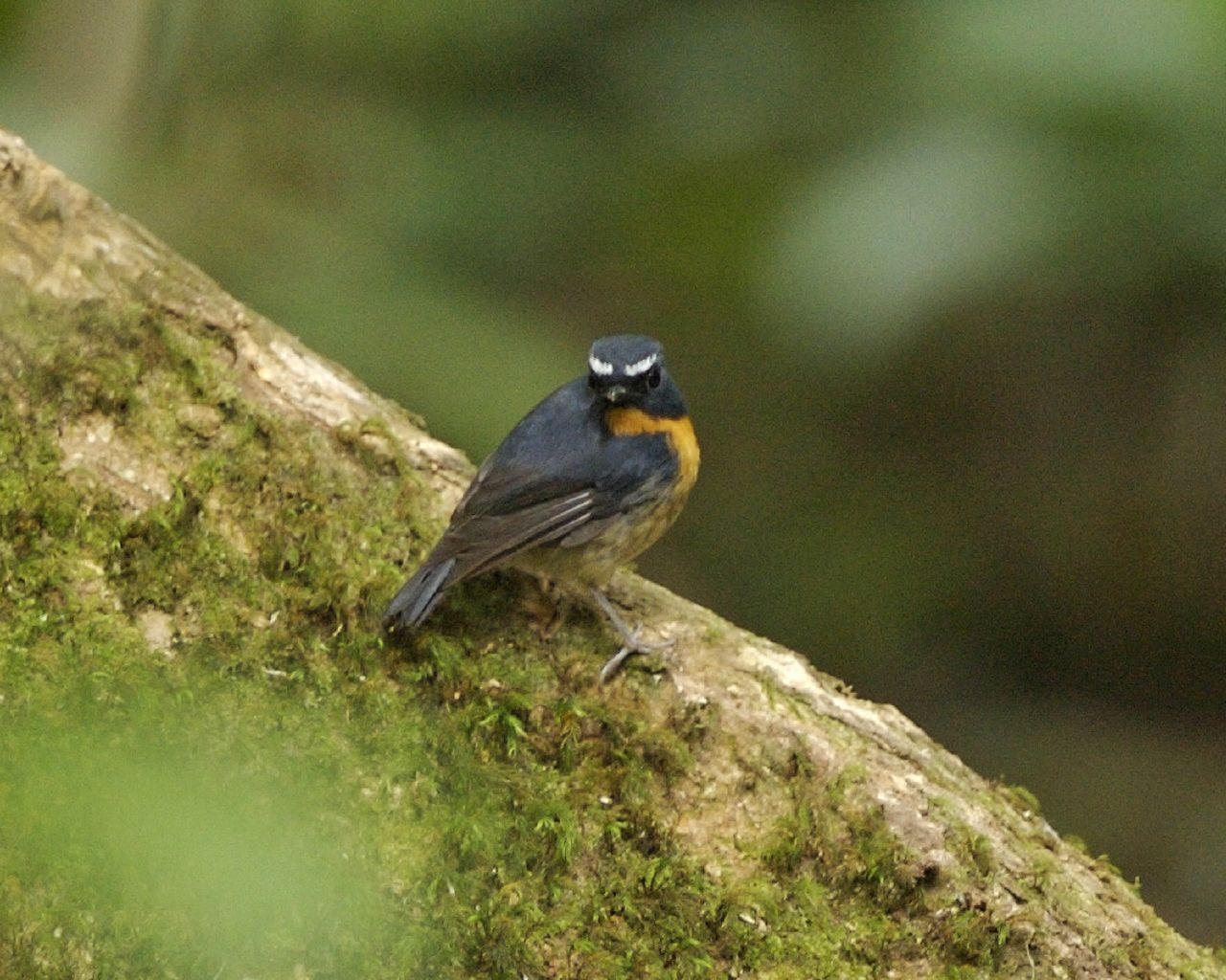 Snowy-browed Flycatcher Ficedula hyperythra Local name, Indonesian: Burung bodoh (not very flattering as bodoh means stupid) 11th. August 2007 Location : Gunong Gede, Java, Indonesia Habitat: Distribution: The family: Male : Female Juvenile: _Q0S8179